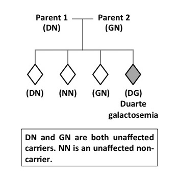 cropped version of DG autosomal recessive